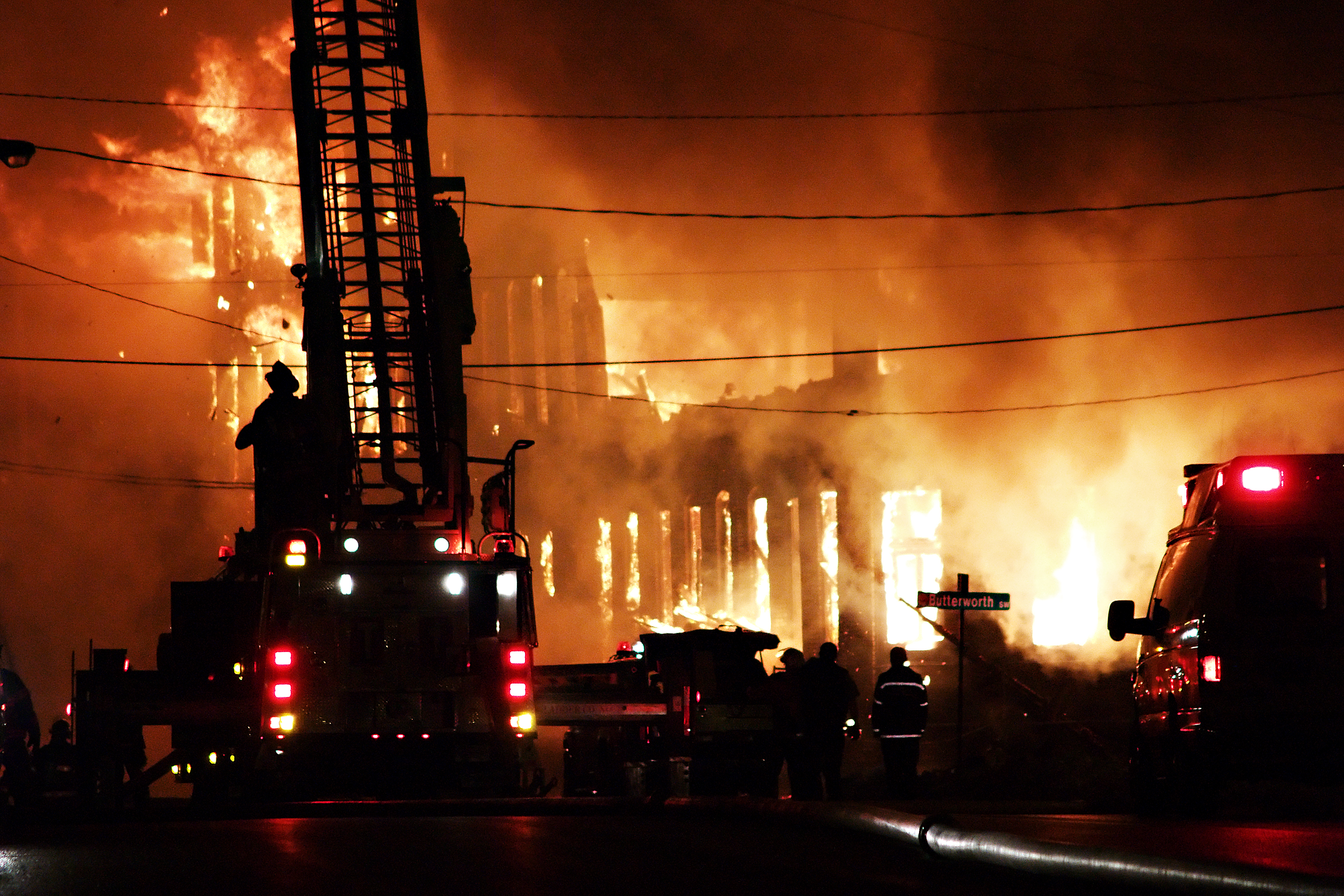 Threealarm fire at former Grand Rapids bicycle factory Fire started shortly after 8pm Tuesday. No injuries. One fire truck sustained damage from intense heat. Featured on and Yahoo! News. Photos must be credited with "Brad Gillette" License on Flickr (2011-01-25): CC-BY-2.0 Flickr tags: Brad Gillette, 02272007, fire, firefighters, firetruck, ems, Grand Rapids, emergency